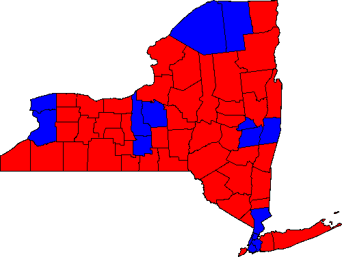 Image showing county-by-county results of the 2000 US Senate election in New York, results taken from